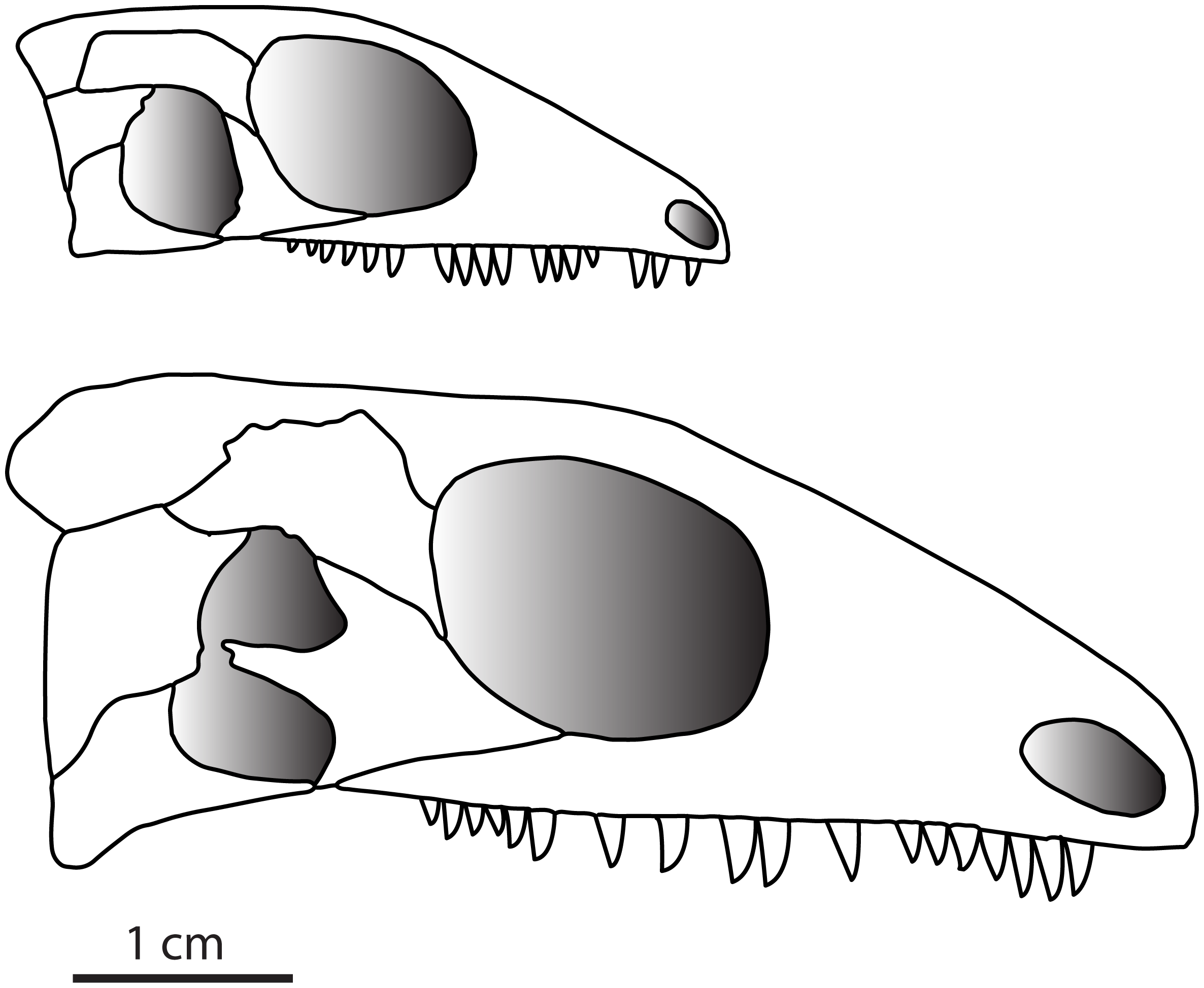 A comparison between the composite reconstructions of the youngest and most mature individuals in the Delorhynchus growth series. Using OMNH 776575, 776576, 77677,77678, 74722, 73362, and 73515.